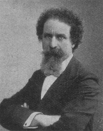 The Italian criminologist Enrico Ferri (1856-1929).